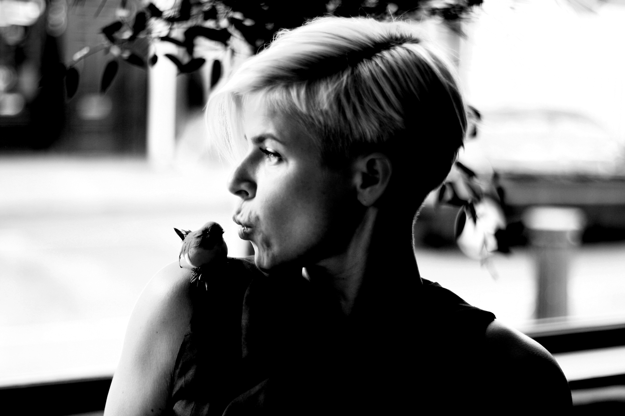 With the singer Robyn (Robin Miriam Carlsson). I was literally given 1 minute for these photos, no joke.